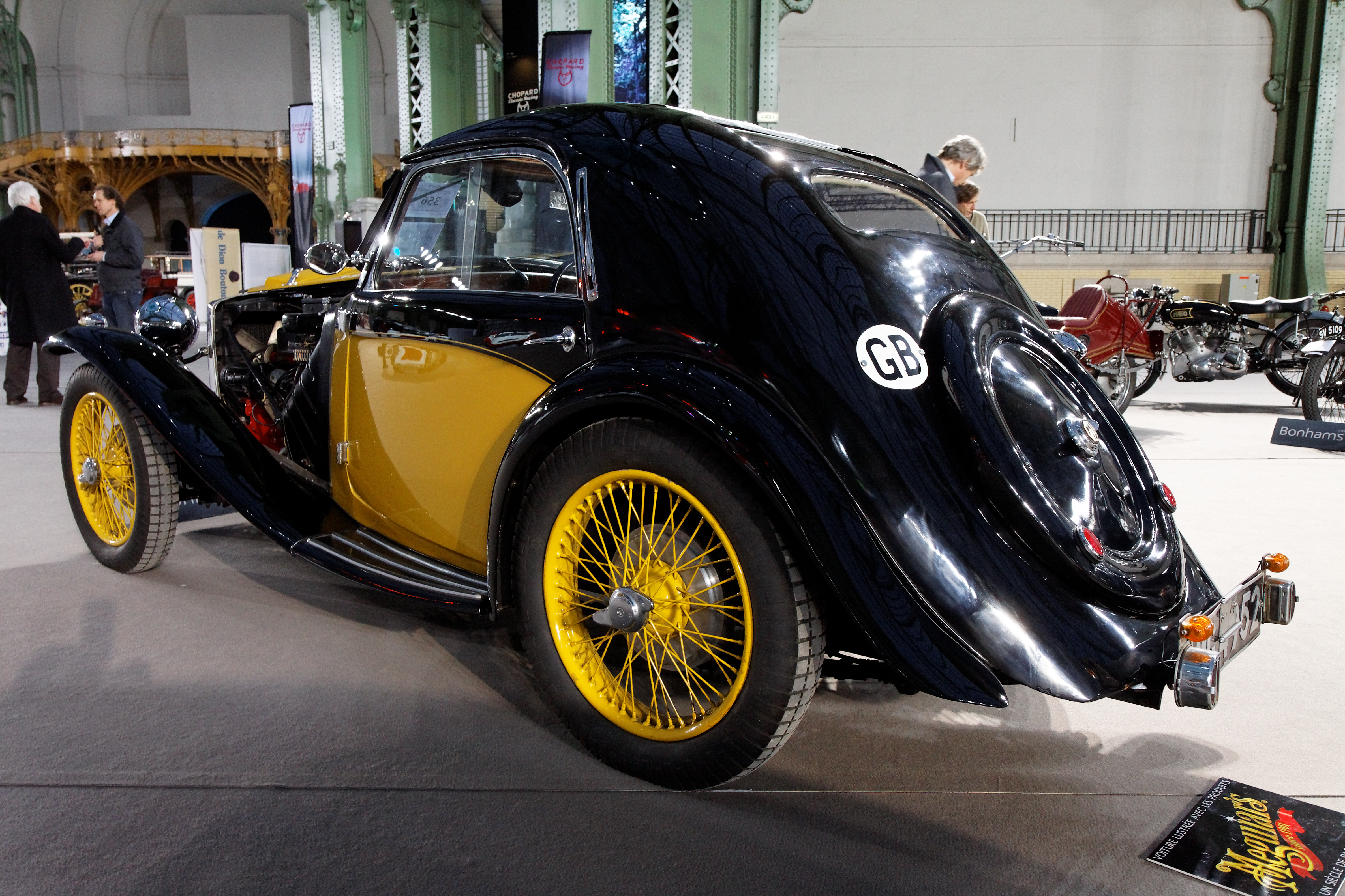 MG Midget TA 'Airline' Coupé